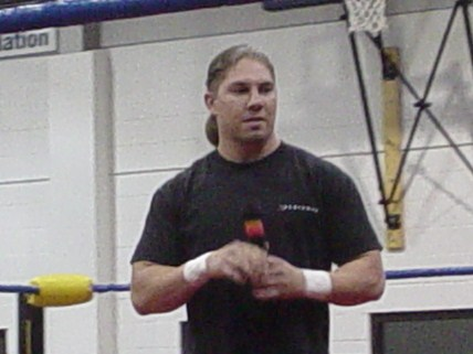 Professional wrestler Michael Shane (Matt Bentley) at an NWA Cyberspace show in April 2005.